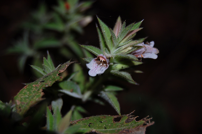 Flowers of the Spiny Lepidagathis (Lepidagathis cuspidata). A common sight at Matheran, it is more abundant towards the end of the monsoon season.